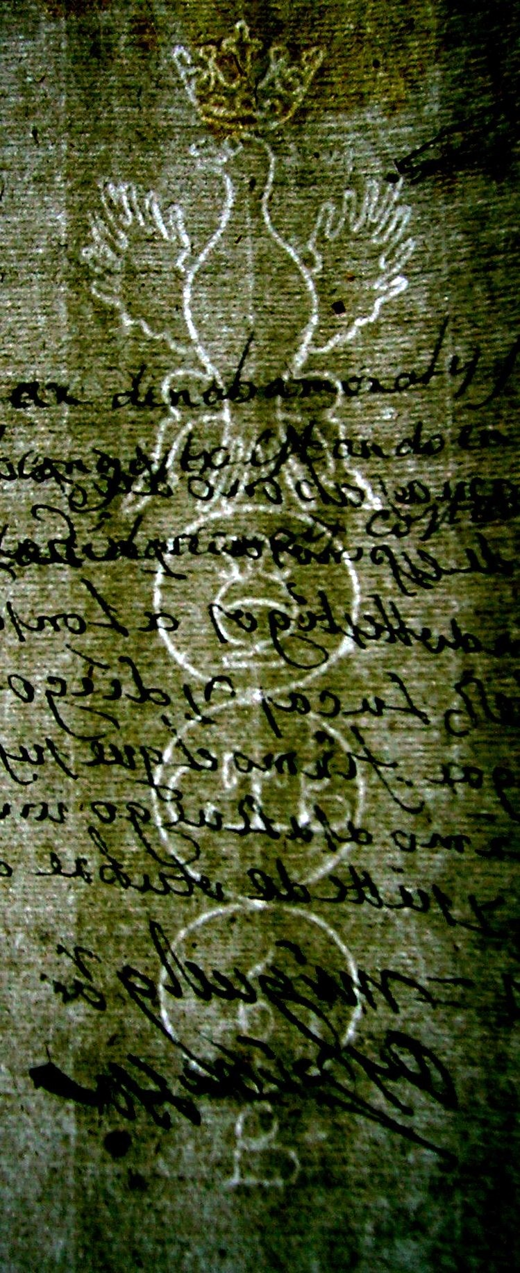 Watermark or "filigrana", end of XVIIth century; council of Navamorales (Salamanca, Spain) files.